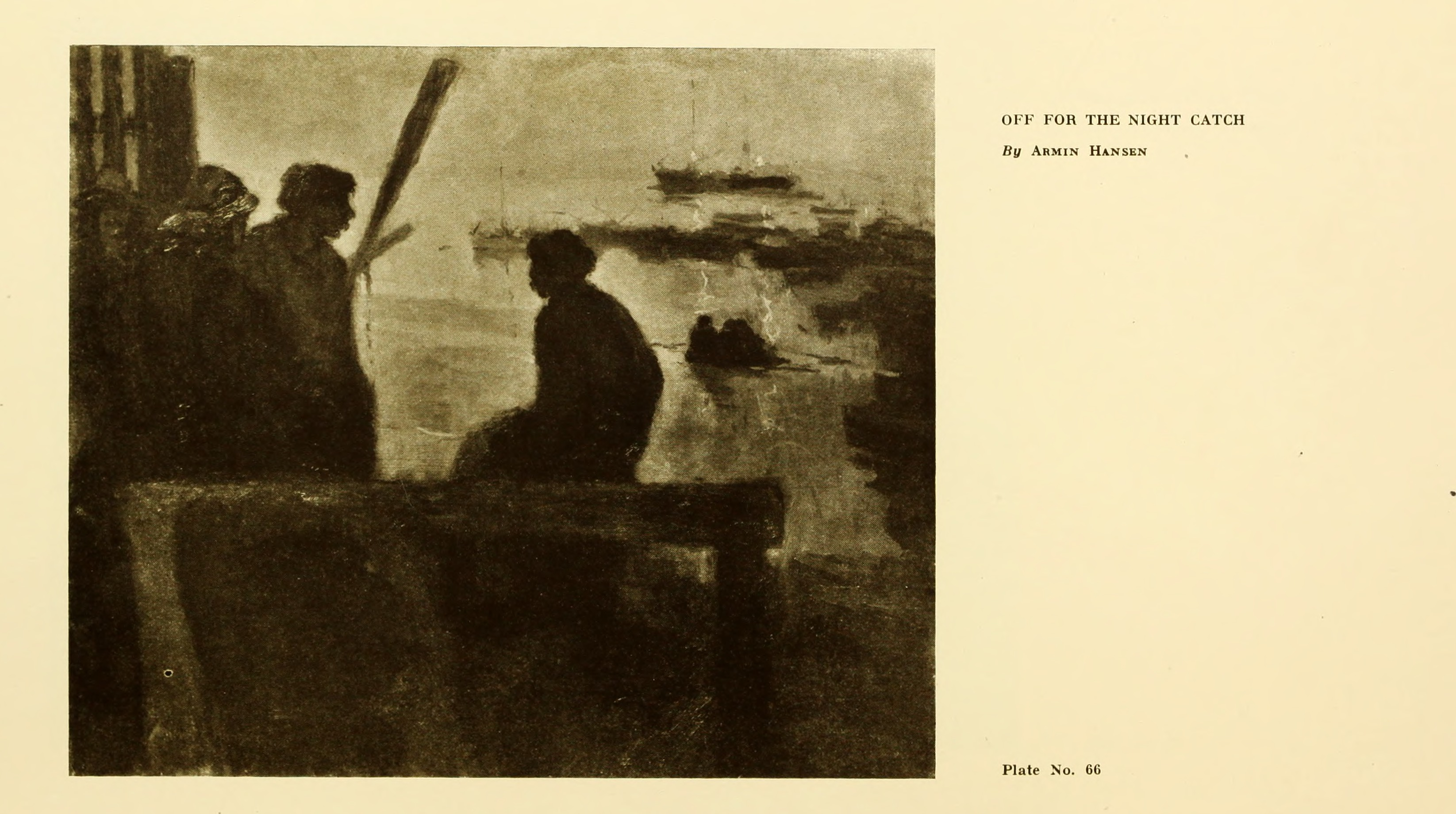 Title: Art in California : a survey of American art with special reference to Californian painting, sculpture and architecture past and present, particularly as those arts were represented at the Panama-Pacific International Exposition : being essays and articles by the following contributors Year: 1916 (1910s) Authors: Porter, Bruce Subjects: Panama-Pacific International Exposition (1915 : San Francisco, Calif.) Art, American Art Publisher: San Francisco : R.L. Bernier Text Appearing Before Image: ' Text Appearing After Image: '